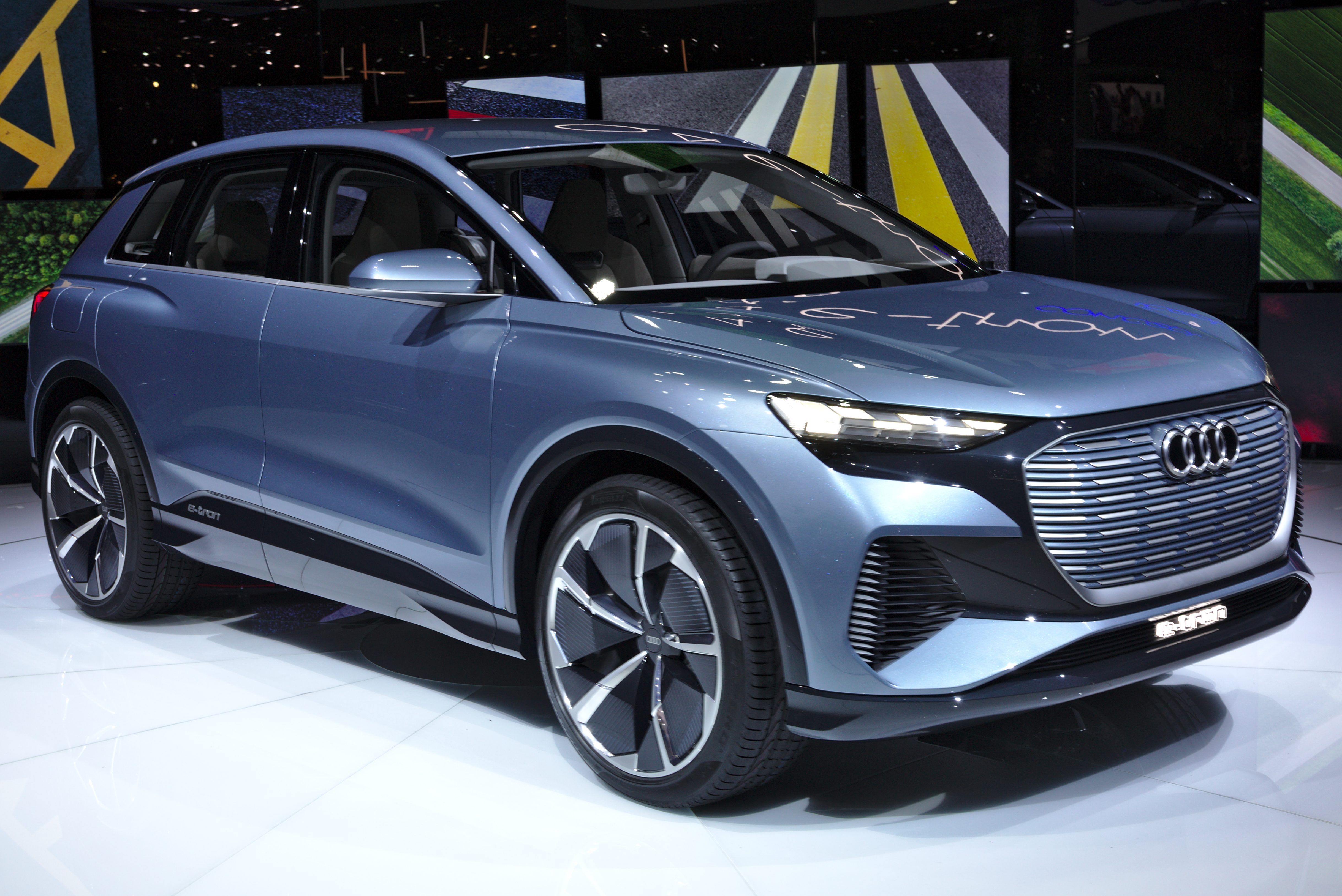 Audi Q4 e-tron concept at Geneva Motor Show 2019